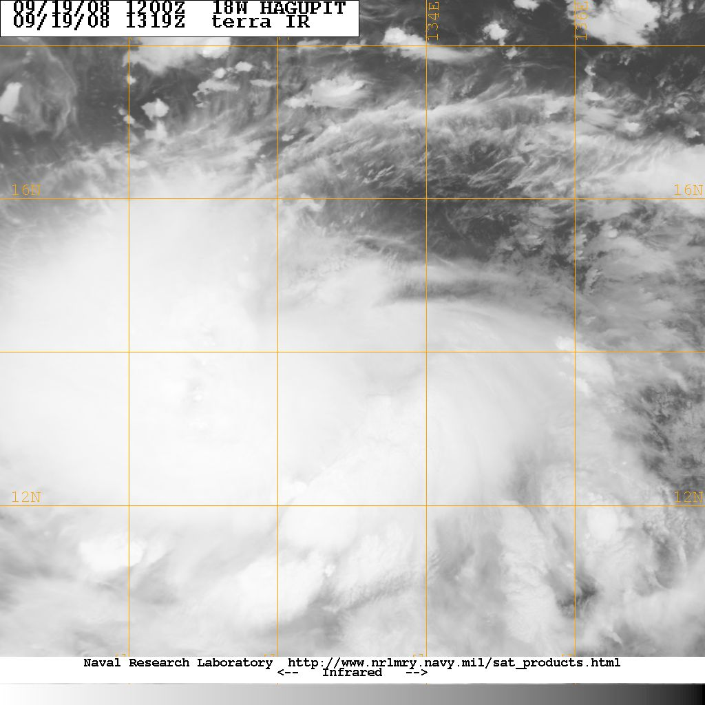 Tropical Storm Hagupit on September 19, 2008